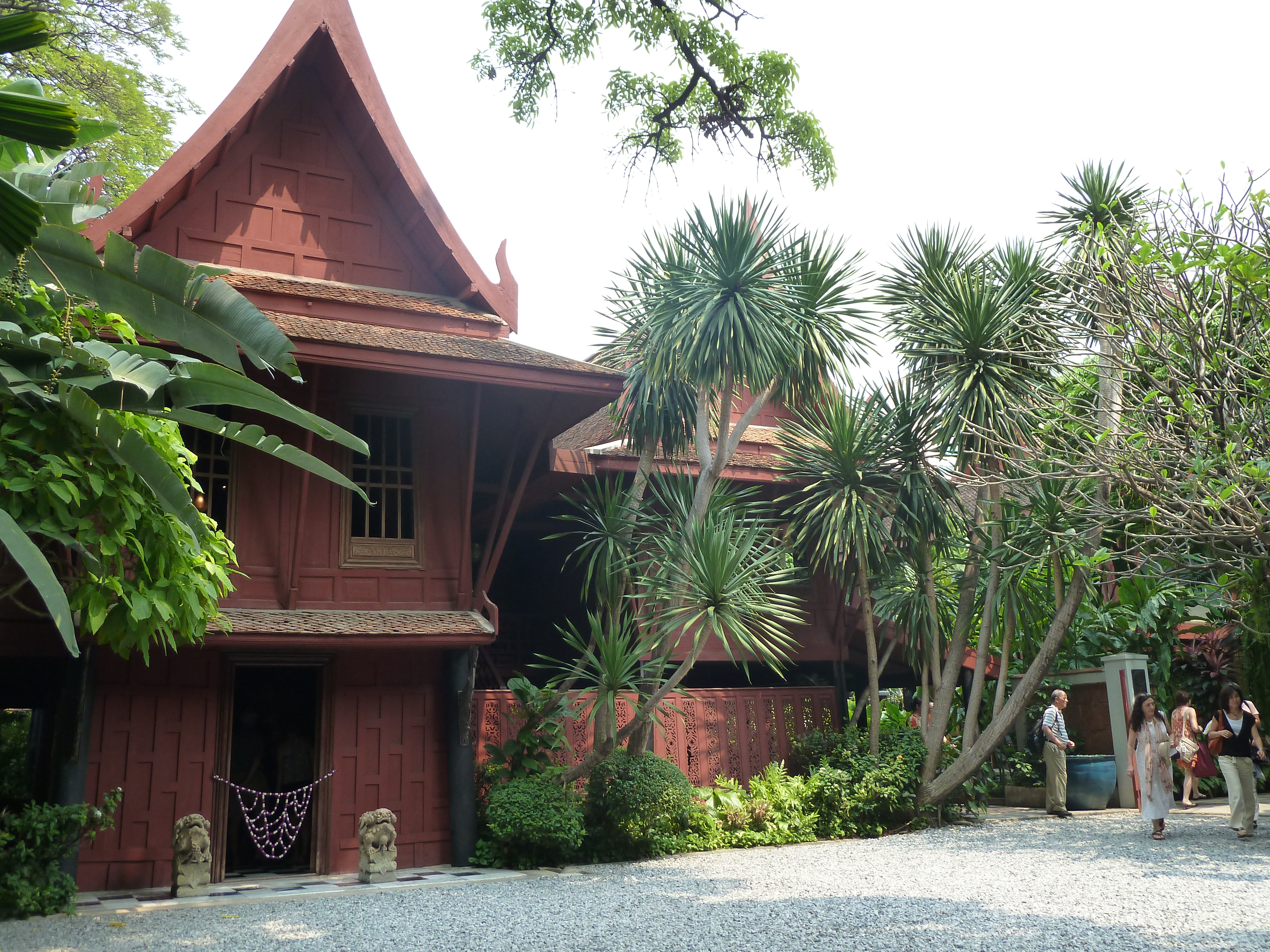 Jim Thompson House, Bangkok, Thailand